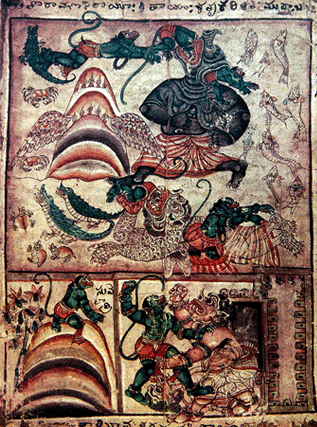 Hanuman encounters with surasa and simhika, hanuman being accosted by Lankini